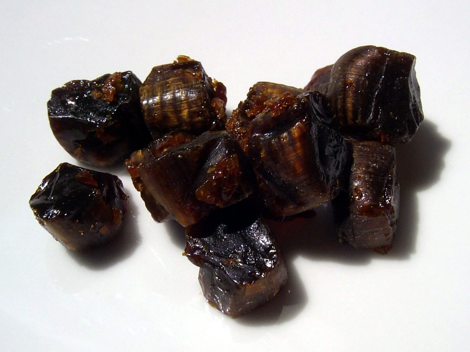 Bayrisch Blockmalz, hard candy from Bavaria.